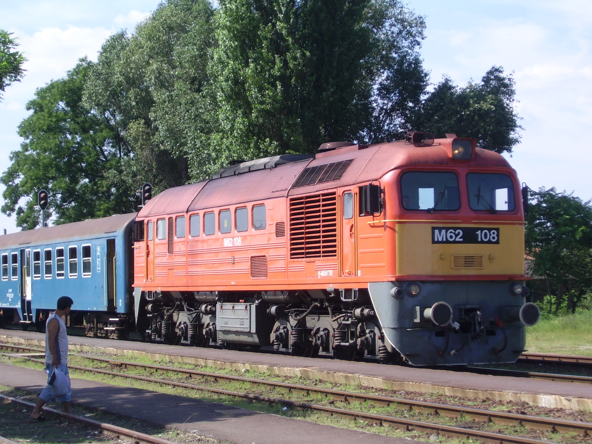 Train No. 2834 of the MÁV-Start Zrt in Örkény, Hungary